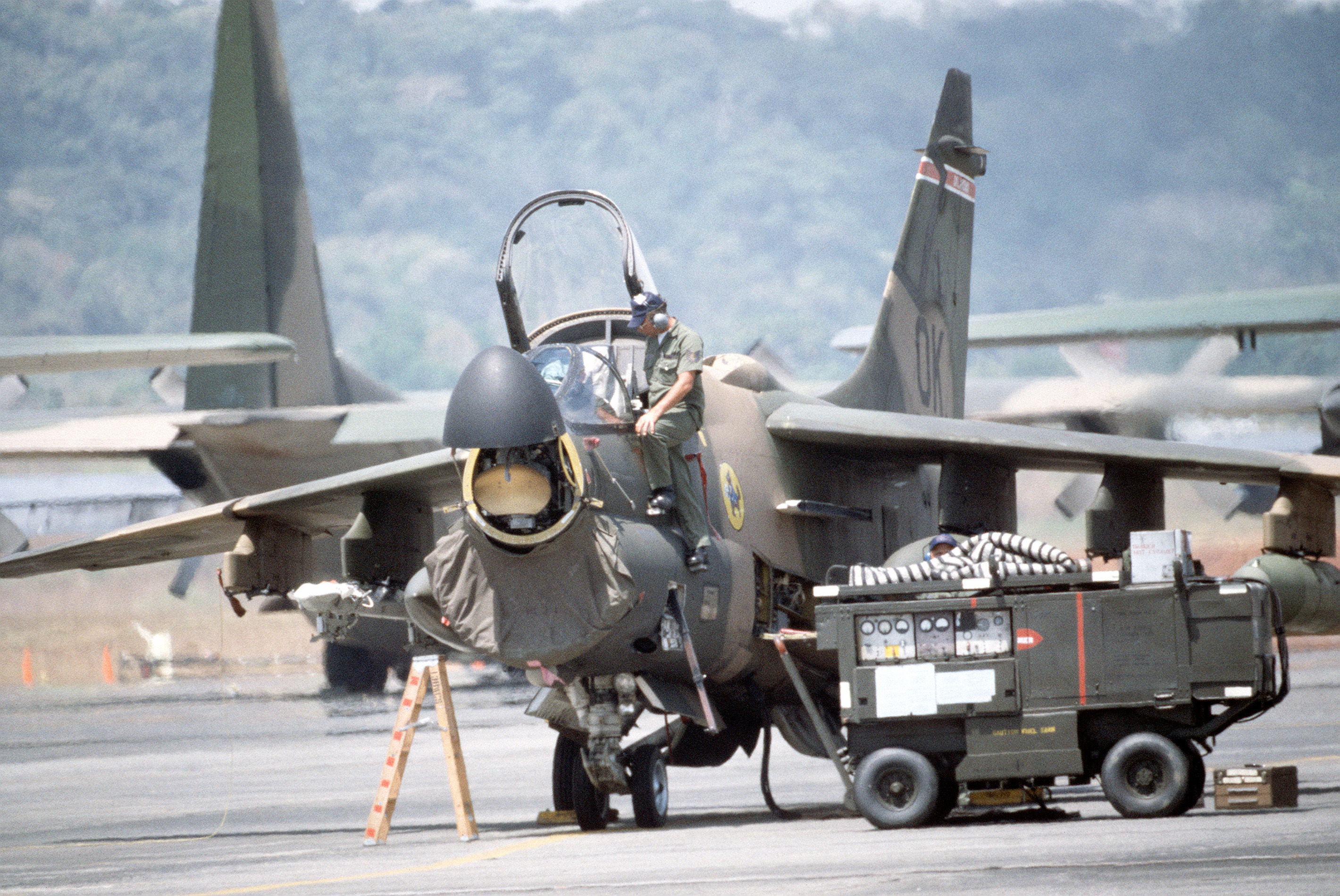 U.S. Air Force members perform maintenance on an LTV A-7D Corsair II aircraft from the 125th Tactical Fighter Squadron, 138th Tactical Fighter Group, Oklahoma Air National Guard, during exercise "Kindle Liberty '83" in Panama. Note: The official description (wrongly) says that this aircraft belonged to the 180th TFG, Ohio Air National Guard (tail code "OH").